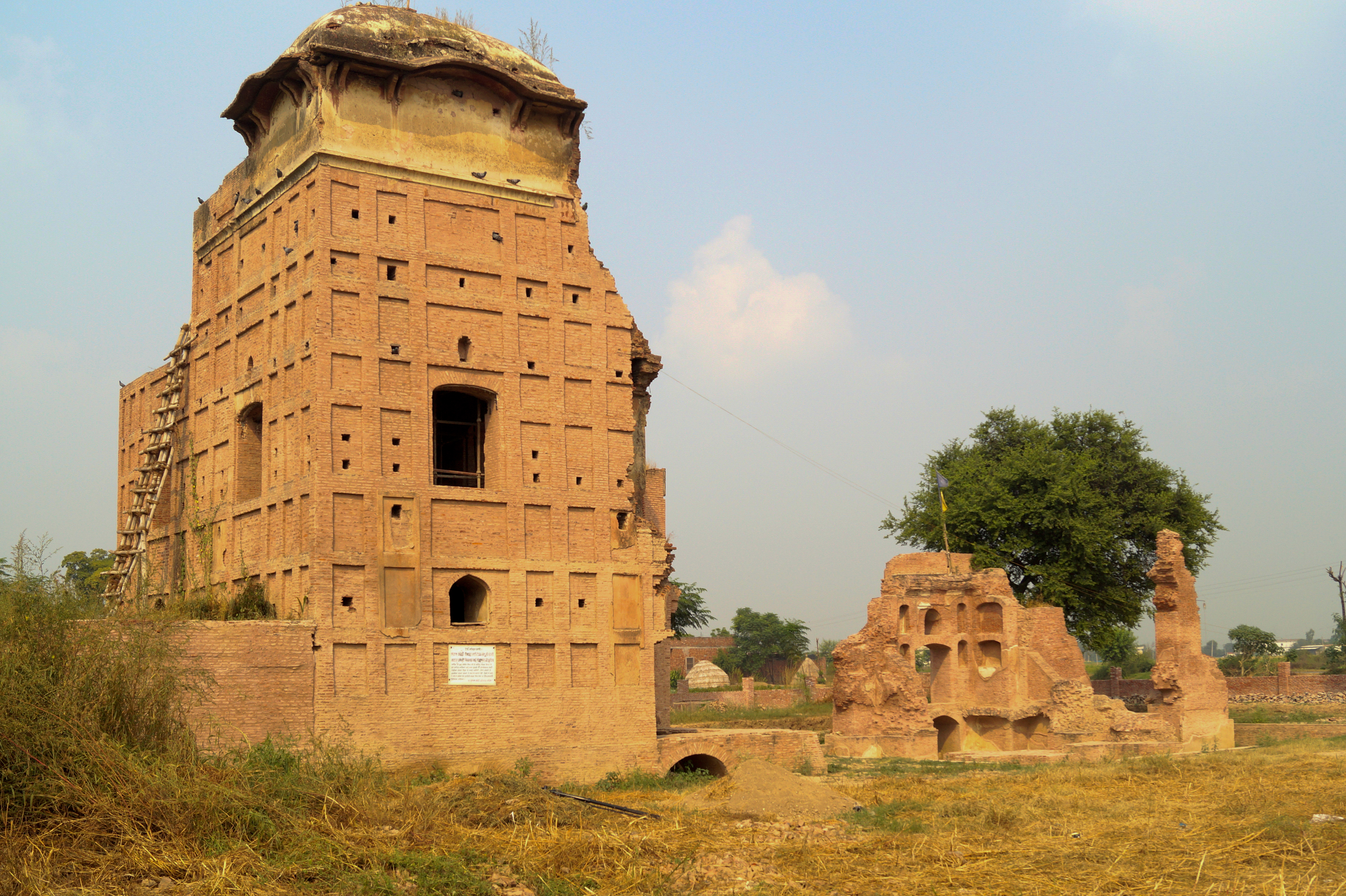 Haveli Todar Mal,Fatehgarh Sahib district,Punjab,India